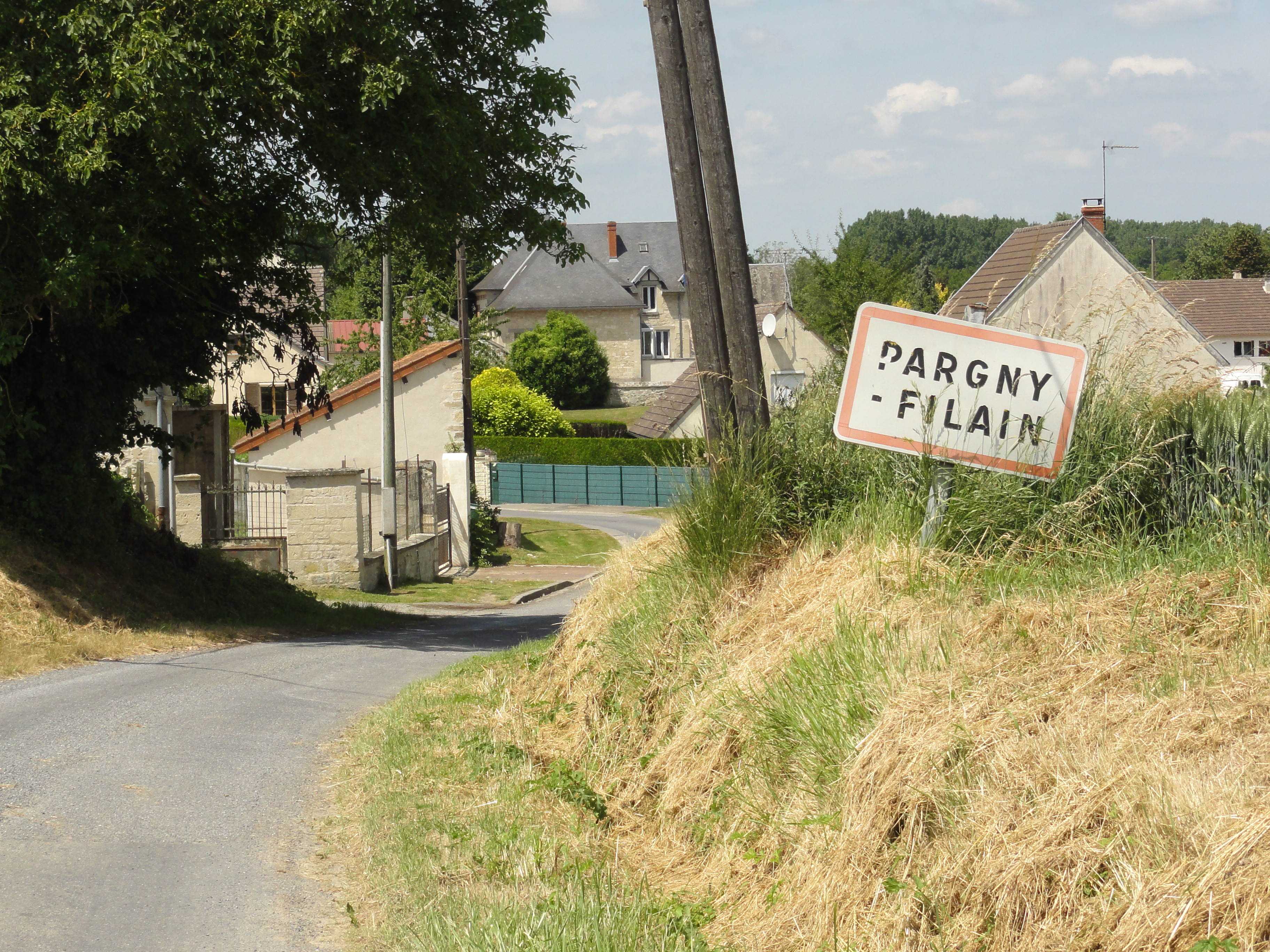 Pargny-Filain (Aisne) city limit sign